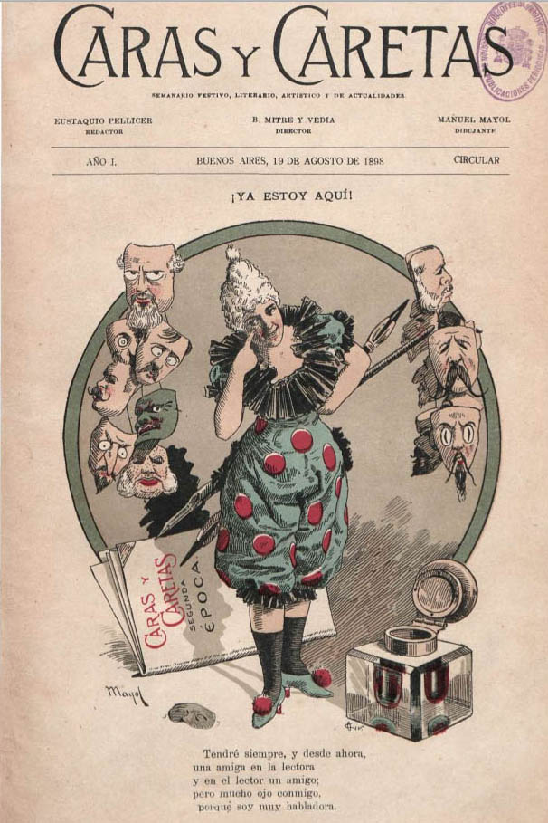 Cover for the N° 1 of Caras y Caretas, a satirical magazine published in Argentina.